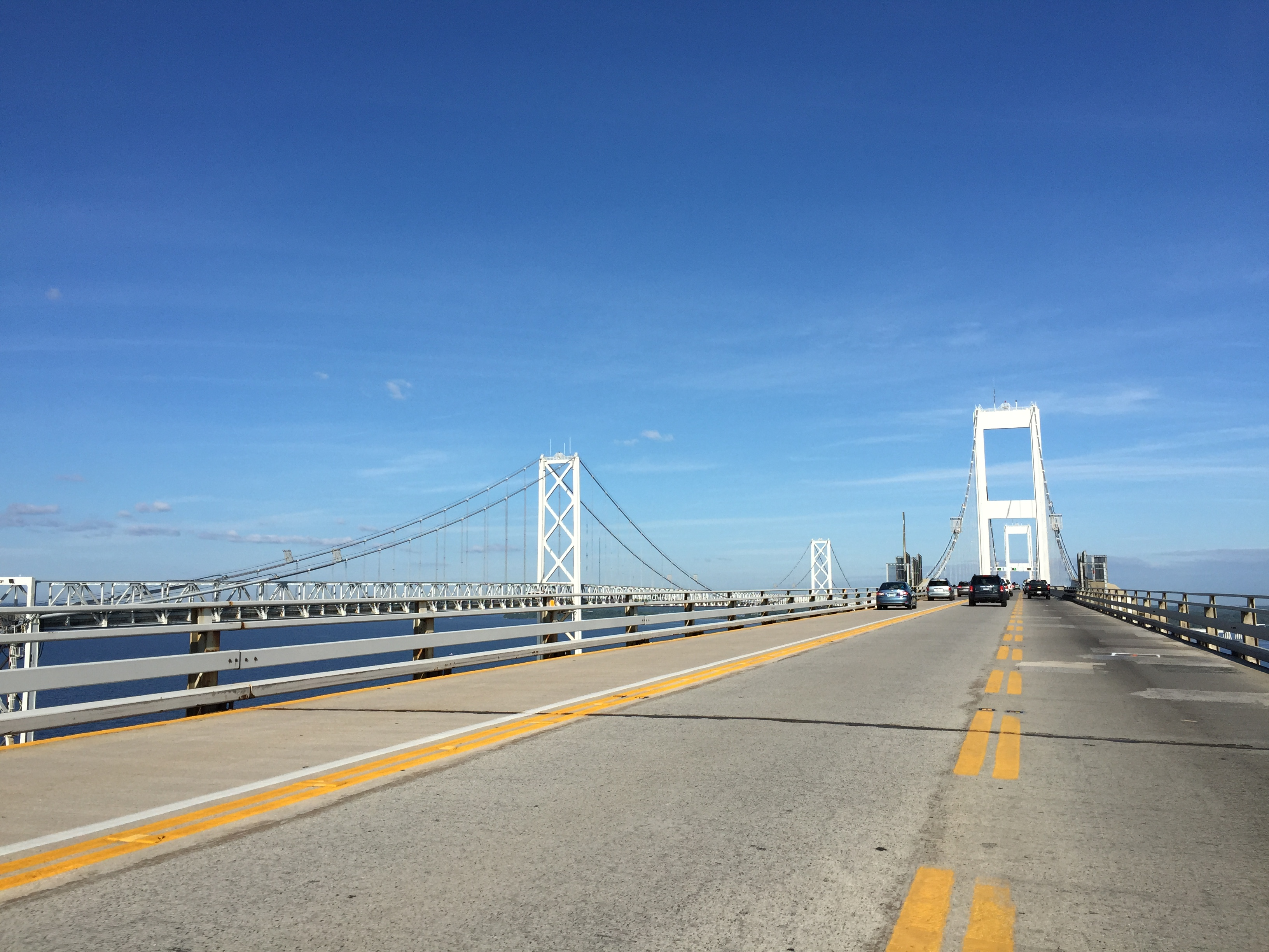 View west along U.S. Route 50 and south along U.S. Route 301 (Chesapeake Bay Bridge) crossing the Chesapeake Bay from Stevensville, Queen Anne's County, Maryland to Skidmore, Anne Arundel County, Maryland